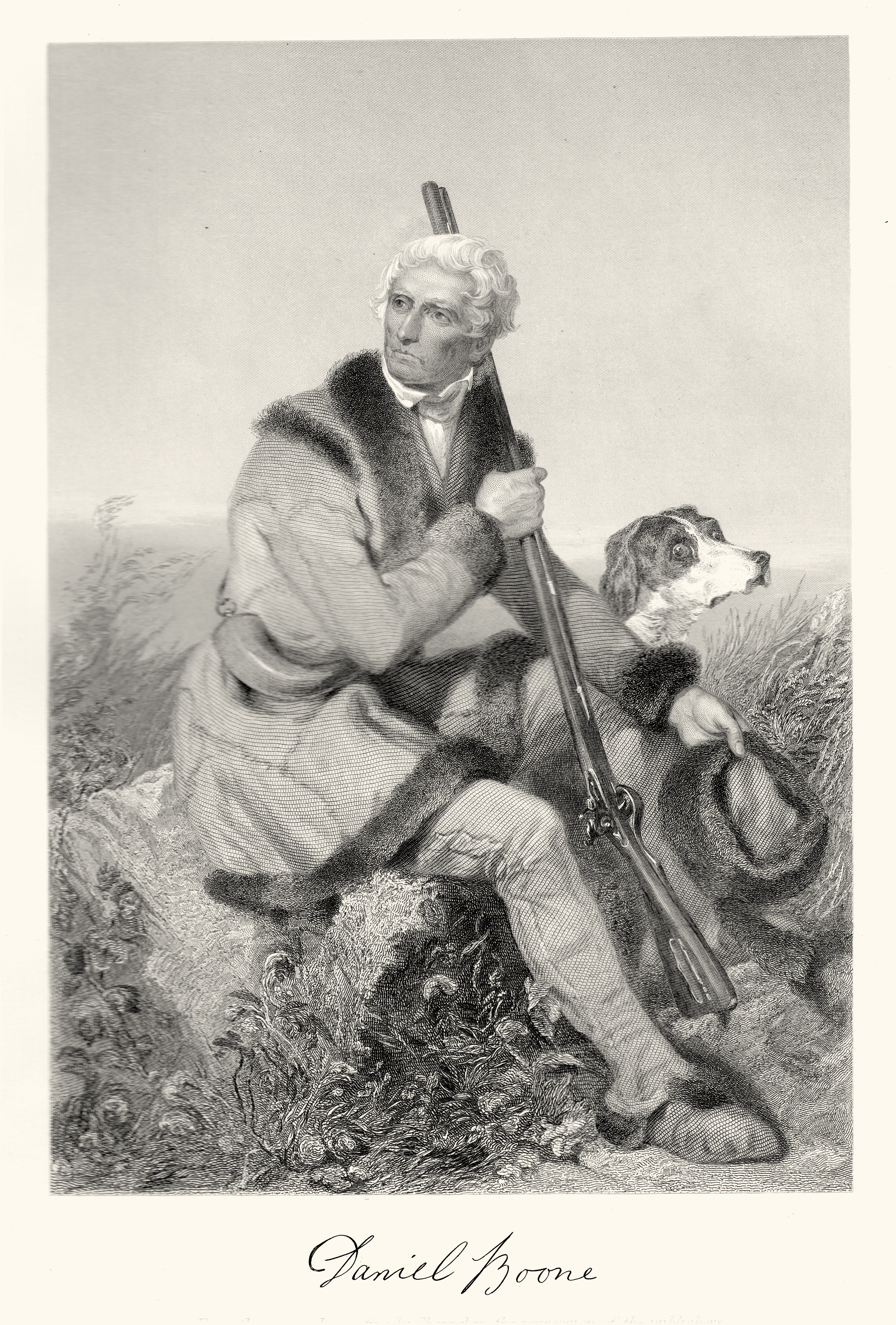 Engraving of Daniel Boone, with autograph at bottom